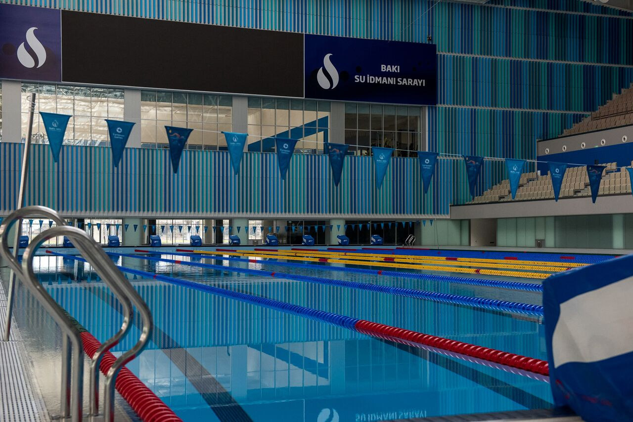 Baku Aquatic Palace, Olympic Pool